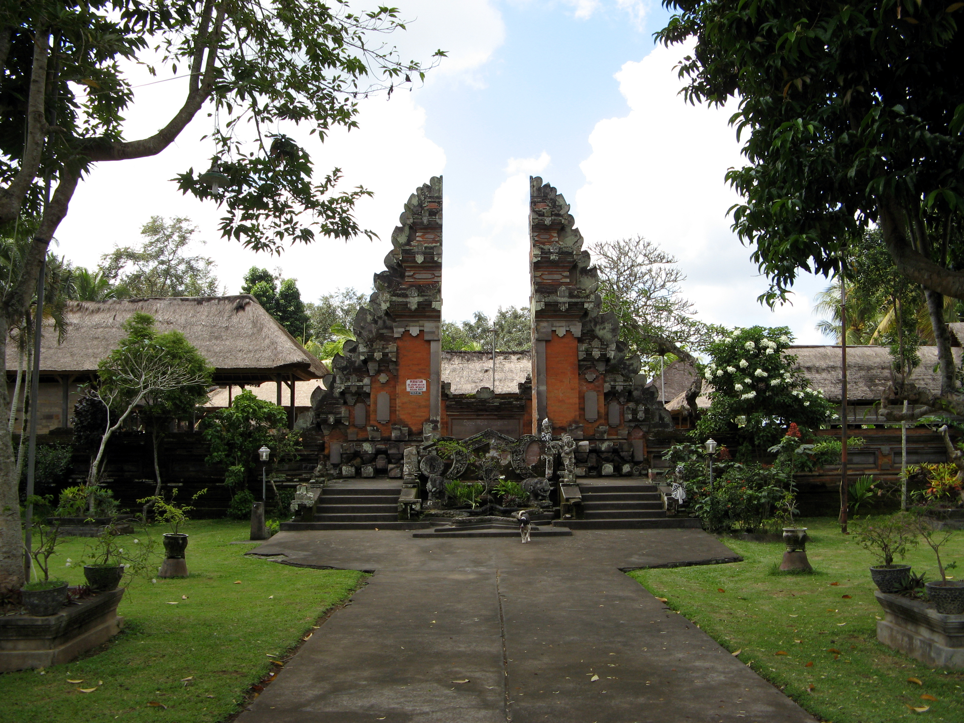 Penataran Sasih was the state temple of the Pejeng Kingdom, 1293 - 1343 AD. It is located in Pejeng, near Ubud.